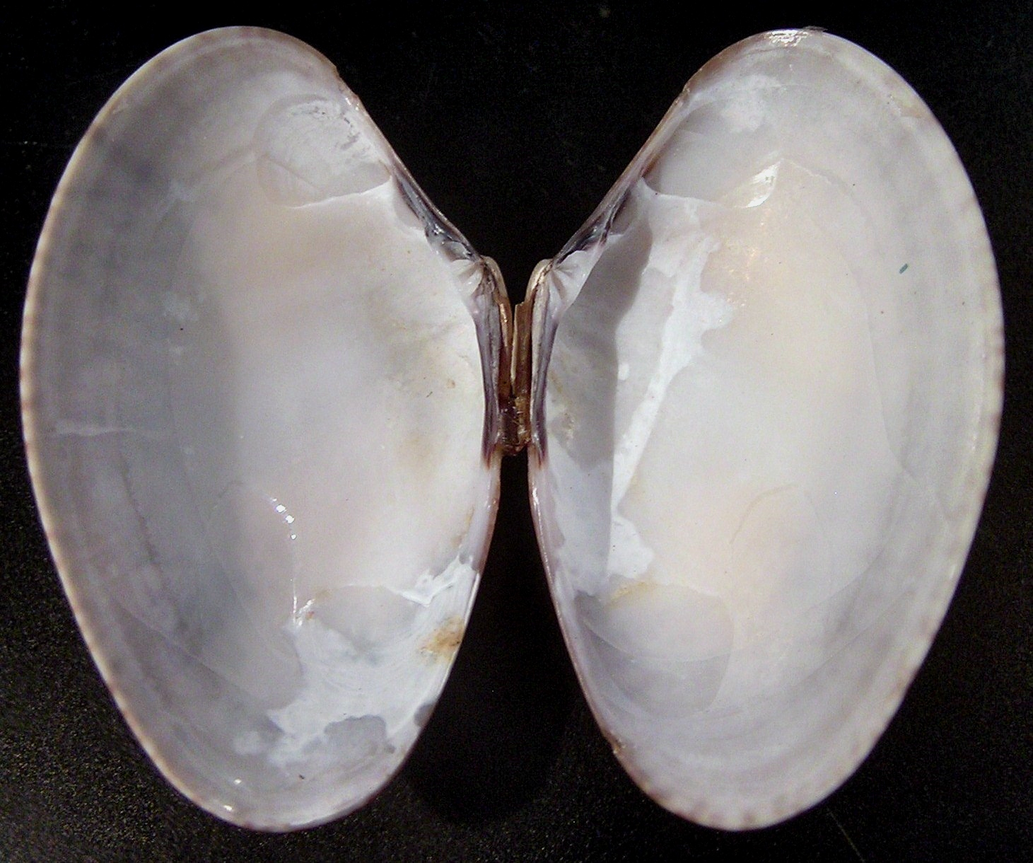 Venus declivis Sowerby, 1853 , a saltwater clam in the family Veneridae